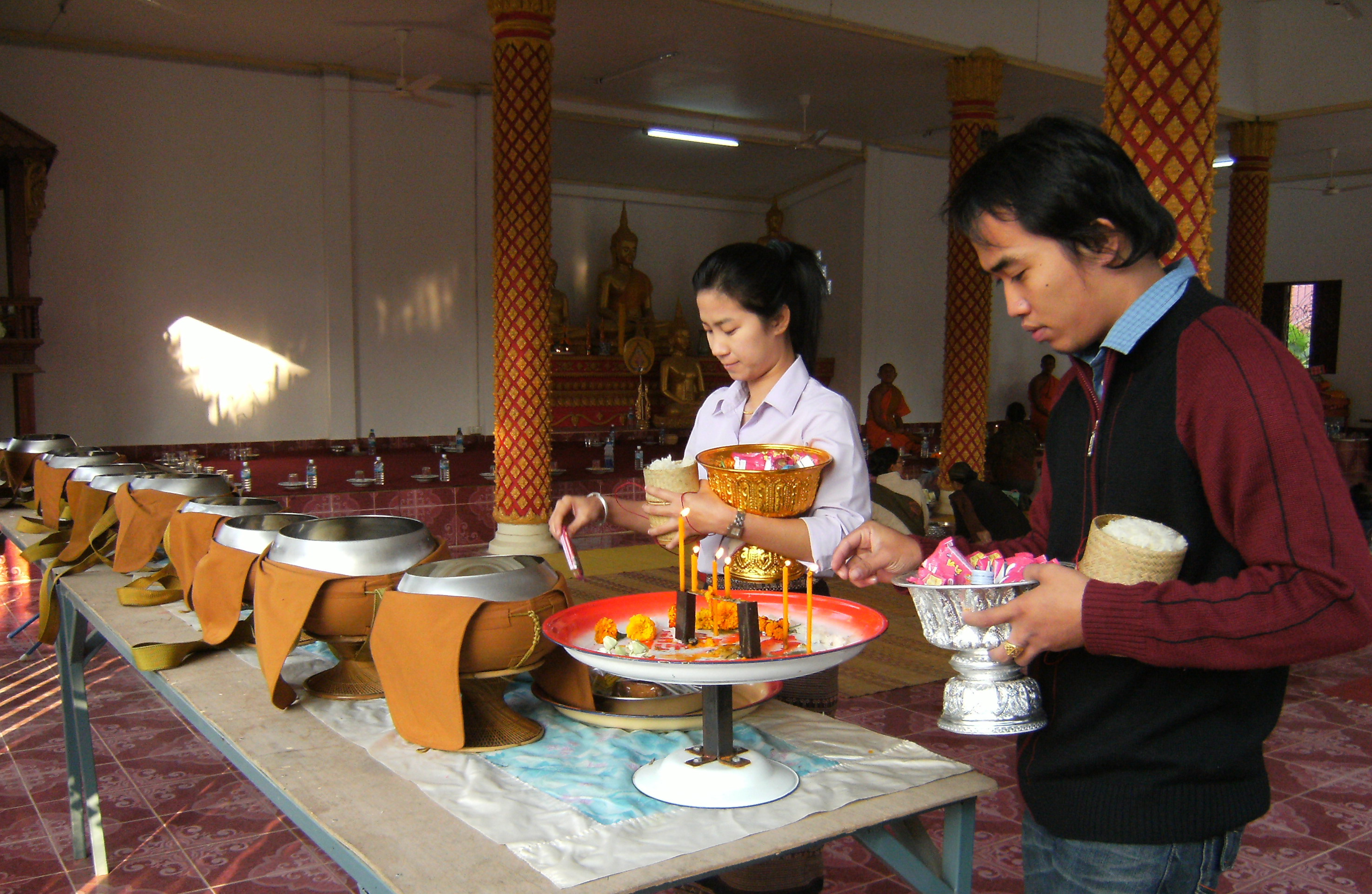 making merit Buddhist holy day in Vientiane Location: Vientiane, Lao.